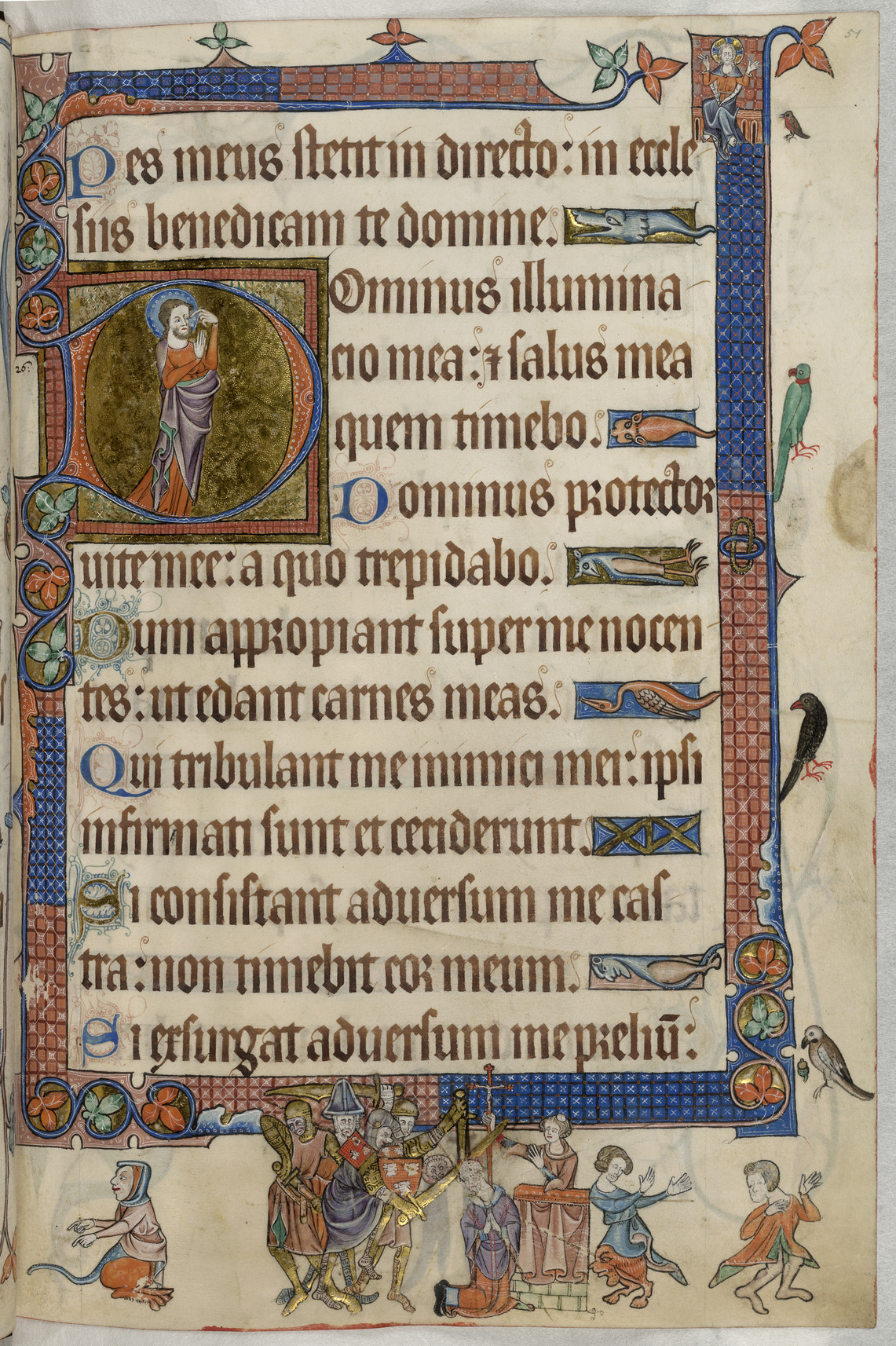 Psalm 26 (27); Thomas Becket [Whole folio] Text; Psalm 26 (Vulgate) beginning with initial 'D' (Dominus illuminatio mea et salus), a nimbed man resembling Christ stands pointing to his mouth. Marginal decoration, including a robin, a green parrot, and a jay. In lower margin, the Martyrdom of St.Thomas Becket. Thomas kneels in front of an altar, with four knights behind him; the nearest knight, Reginald Fitzurse, is cleaving the saint's head with a golden sword.